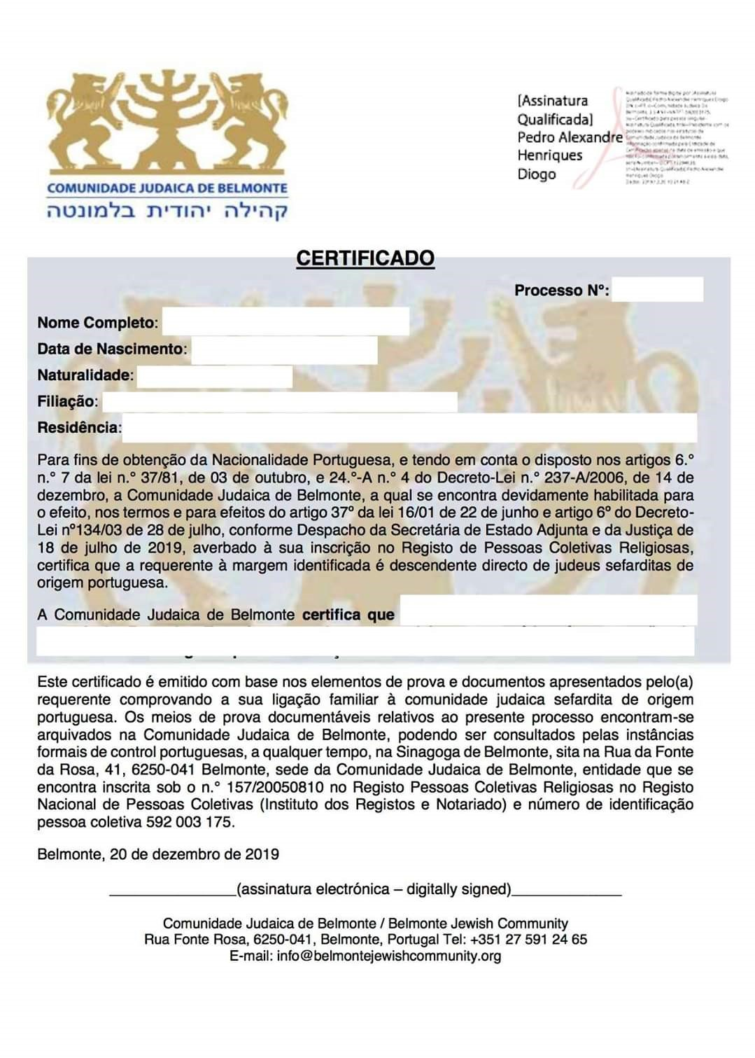 Jewish Community of Belmonte